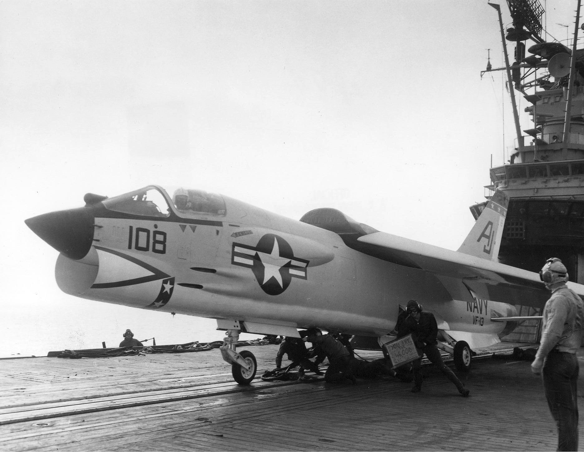 A U.S. Navy Vought F-8D Crusader from Fighter Squadron VF-13 Night Cappers (pilot LCdr. William J. Brandell) is readied for the 46,000th launch from the circraft carrier USS Shangri-La (CVA-38). VF-13 was assigend to Attack Carrier Air Wing 8 (CVW-8) aboard the Shang for a deployment to the Mediterranean Sea from 29 September 1966 to 20 May 1967. Original description:': "Aboard the Attack Aircraft Carrier USS Shangri La (CVA-38) with the U. S. Sixth Fleet in the Mediterranean, May 1, 1967 -- CDR William John Brandell, Jr., XO of VF-13 looks on as his plane is bridled for the 46,000th launching from the starboard catapult of the USS Shangri-La (CVA-38). Aviation Boatswain's Mate Second Class (ABE-2c) Gale "Abe" Abresch notifies him of his feat, as Petty Officers Third Class Glenn Sturtevant and Alkivivaeis Diakowmakis hook the F8B Crusader to the Catapult groove."